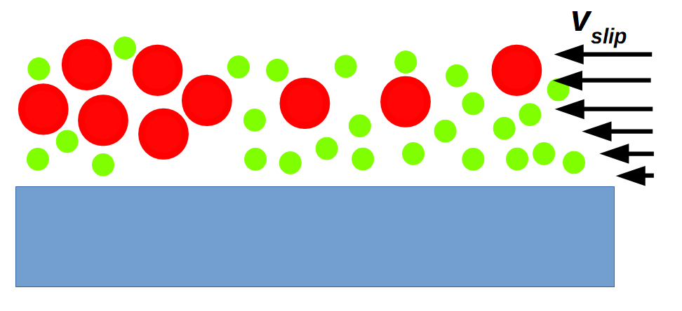 Simple schematic illustrating diffusioosmotic flow above a surface in contact with a solution with concentration gradient. English language labels